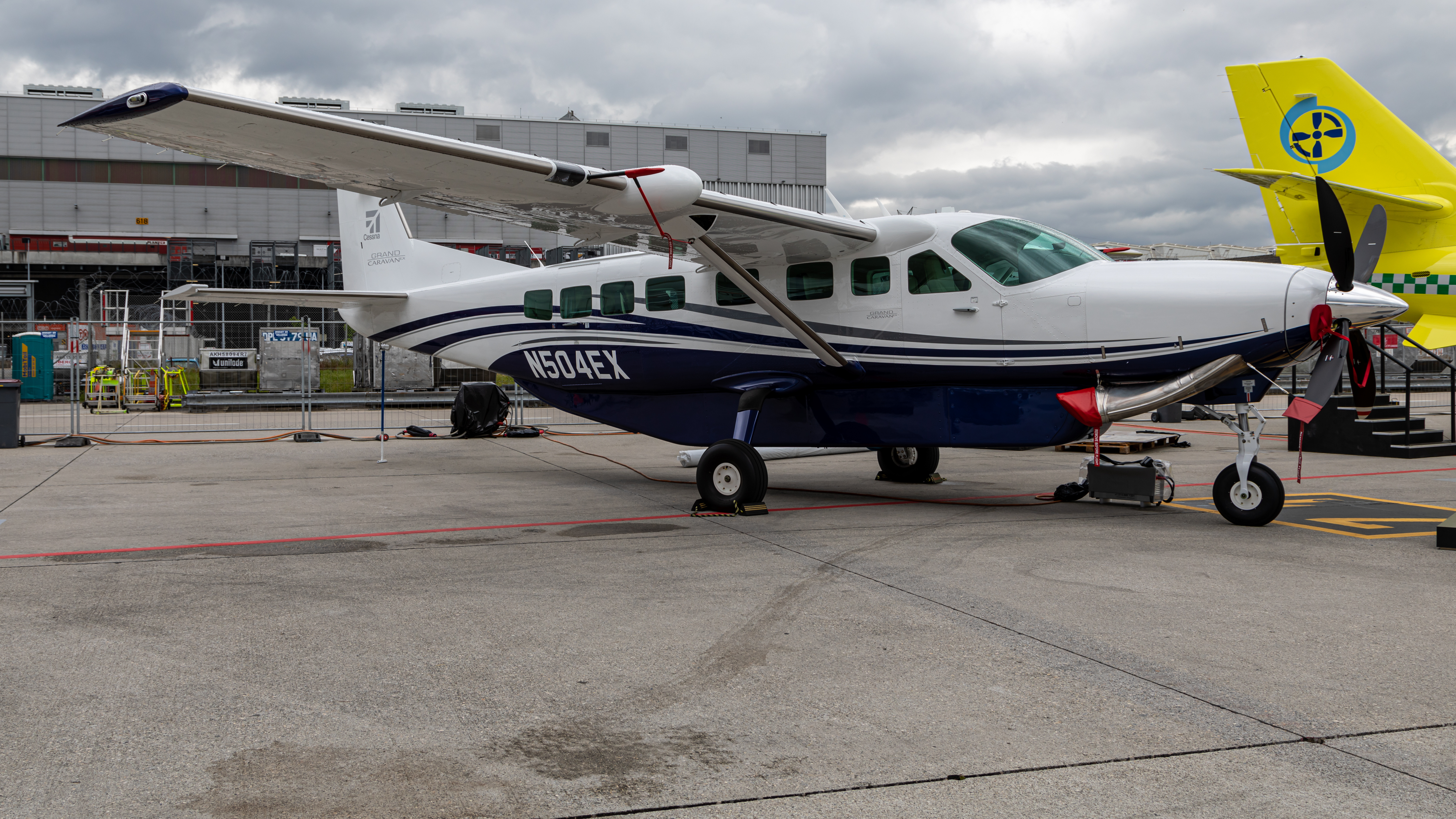 EBACE 2019, Palexpo, Switzerland